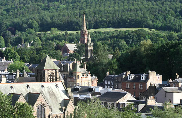 Church spires in Galashiels Viewed from the High Road, this shows in the left foreground, St Andrew's Arts Centre in Bridge Street which was built as St Andrew's Church in 1885. The spire in the centre is at St Aidan's Church in Gala Park, opened in 1880 but closed in 2005. The red sandstone spire behind St Aidan's Church is at Old Parish and St Paul's Church in Scott Crescent which opened in 1881. The 58m spire was finished in 1885 and for the past few years a pair of peregrine falcons have nested here and successfully reared young. The former spire of St Andrew's Church was reduced to a small pyramidal roof, a poor substitute for what was a great spire, and a major loss to the roofscape of the town.